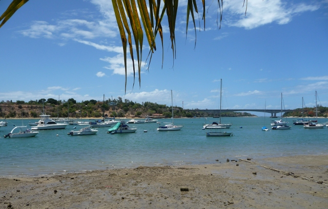 Kilifi harbour